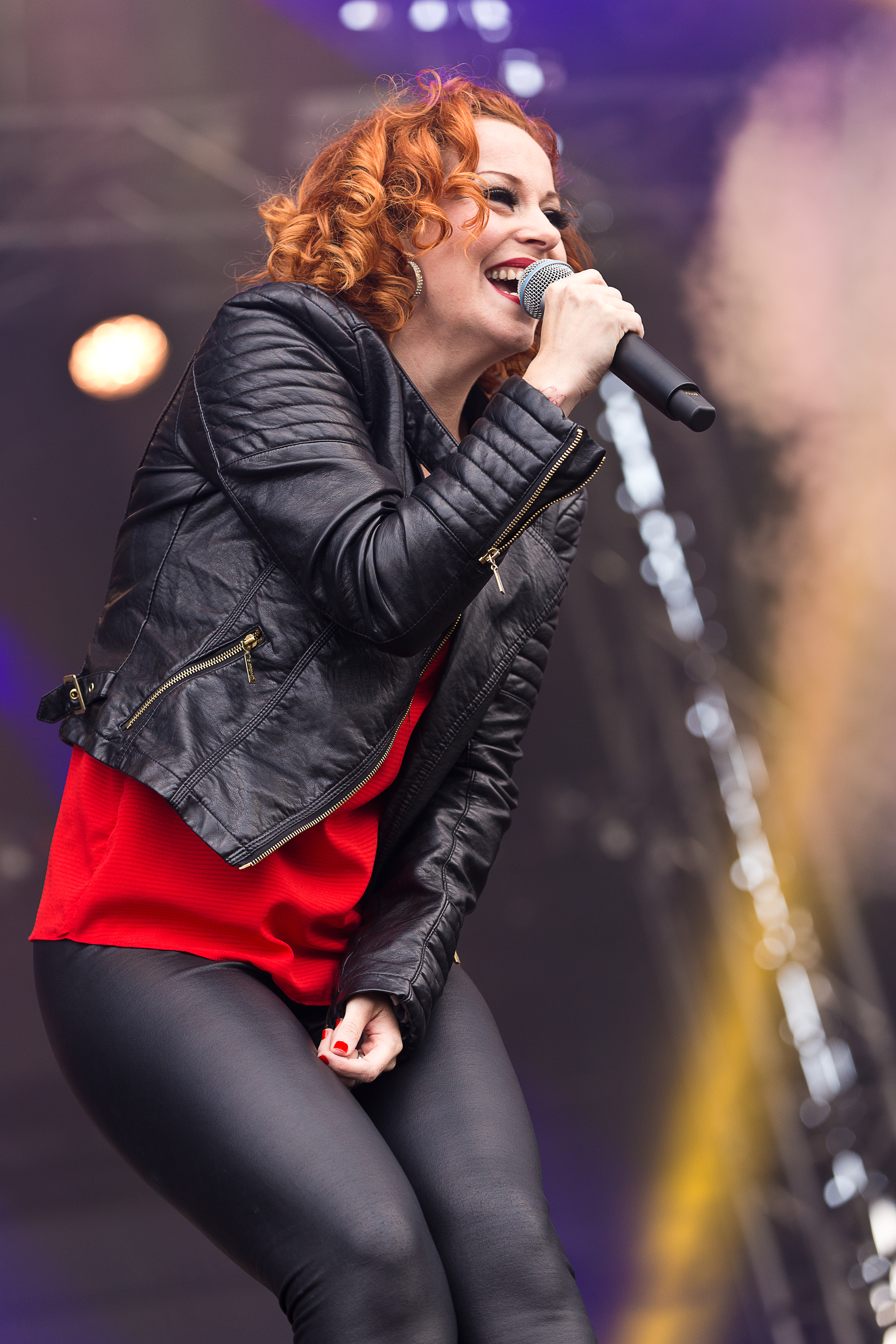 The Dutch progressive metal band The Gentle Storm at the Rockharz Open Air 2015 in Ballenstedt/Germany.